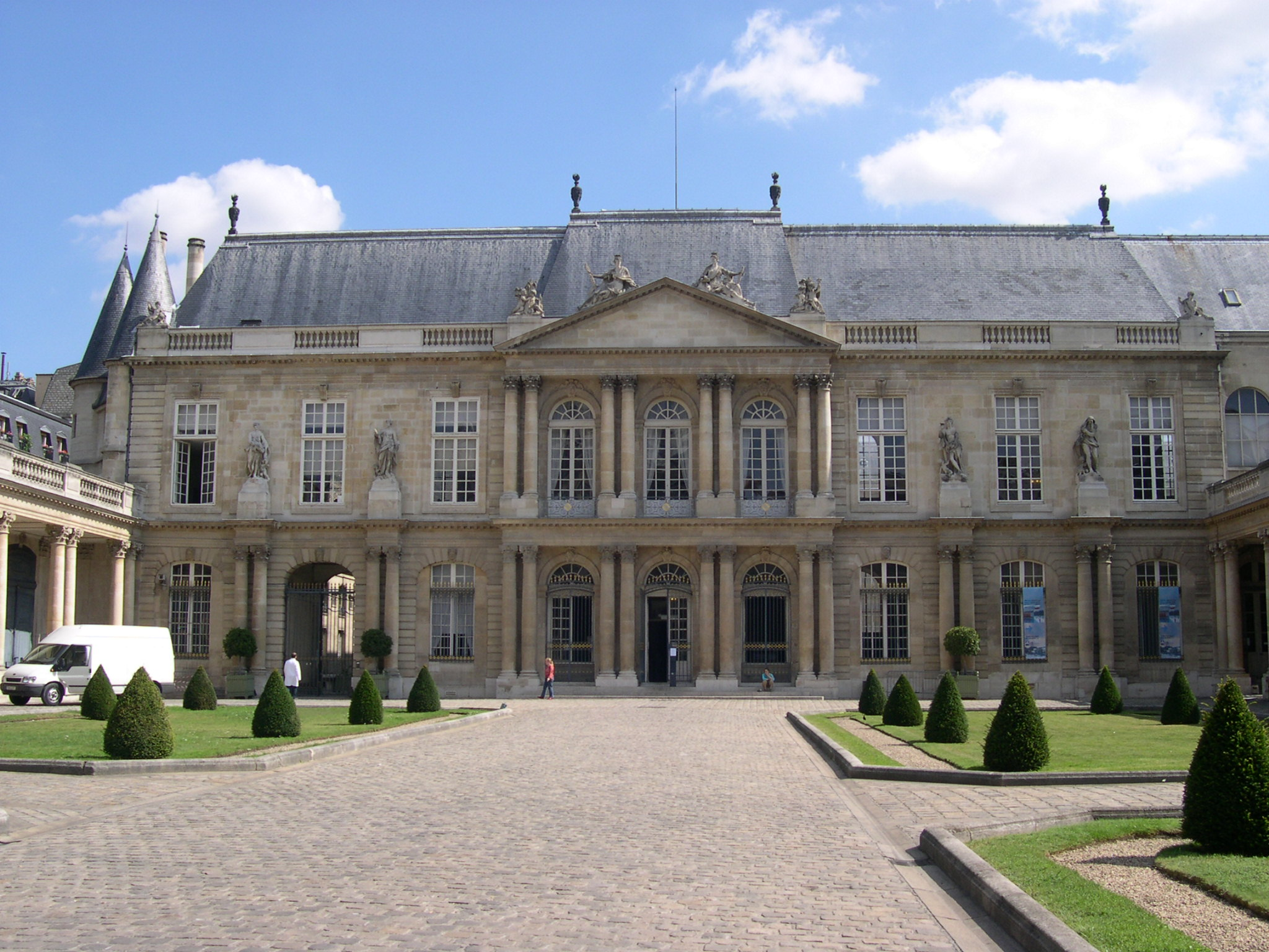 Archives Nationales main building in Paris, France